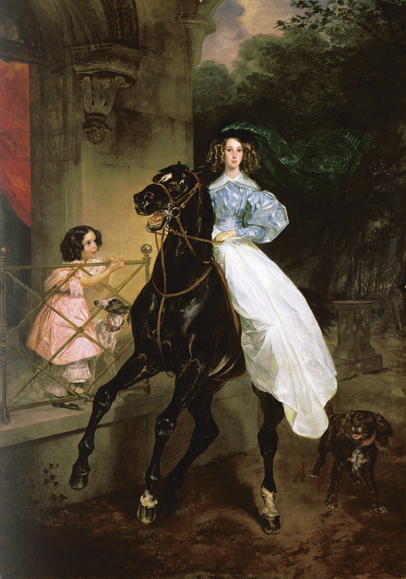 Horsewoman.Portrait of Giovannina and Amazilia Pacini, the Foster Children of Countess Yu. P. Samoilova